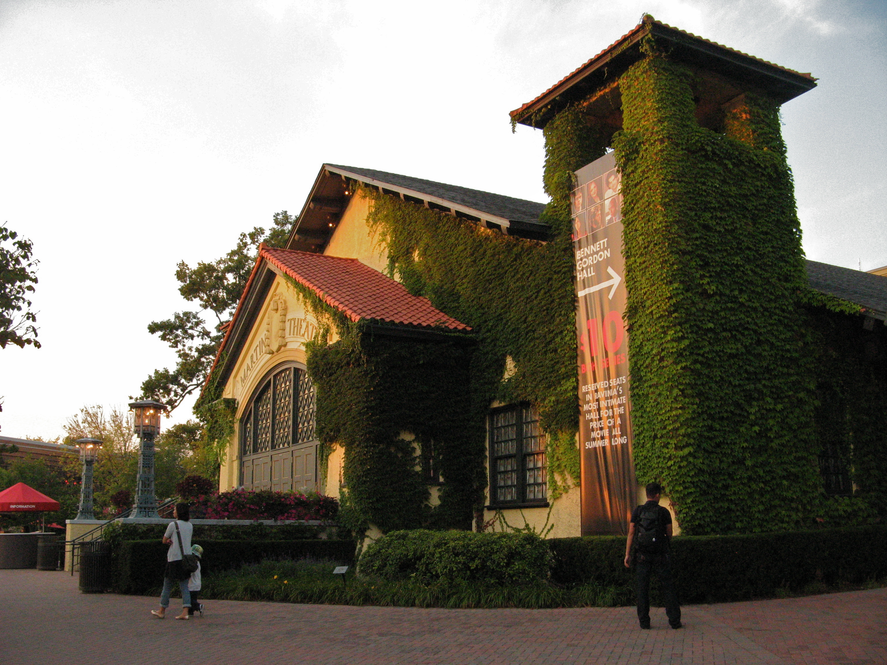 Martin Theater - Ravinia Festival